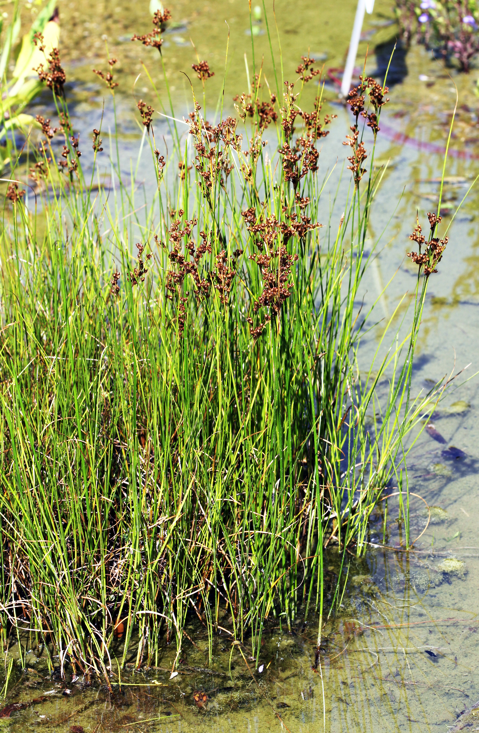 Water plant Juncus compressus, whole plants from the Botanical Gardens of Charles University, Prague, Czech Republic